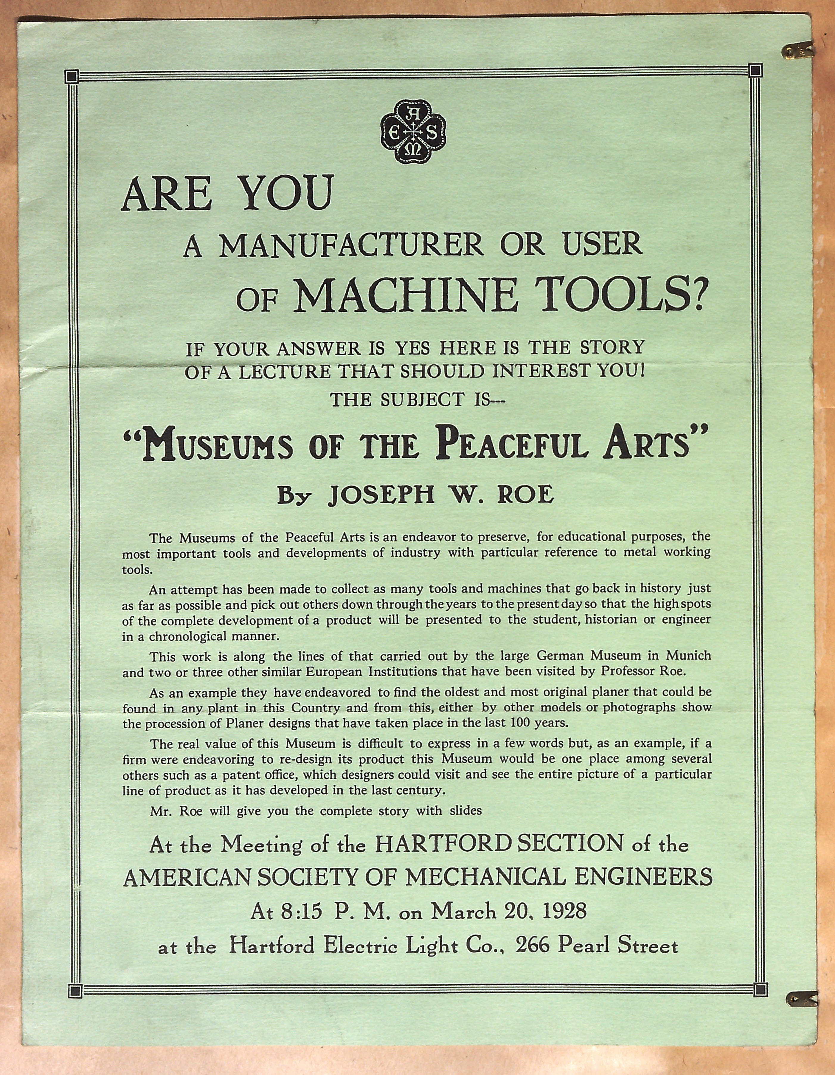 Lecture poster for talk on the Museum of the Peaceful Arts by Joseph Roe, to be held on March 20, 1928 at the Hartford Electric Light Company, sponsored by the Hartford Section of the American Society of Mechanical Engineers, in Hartford, Connecticut